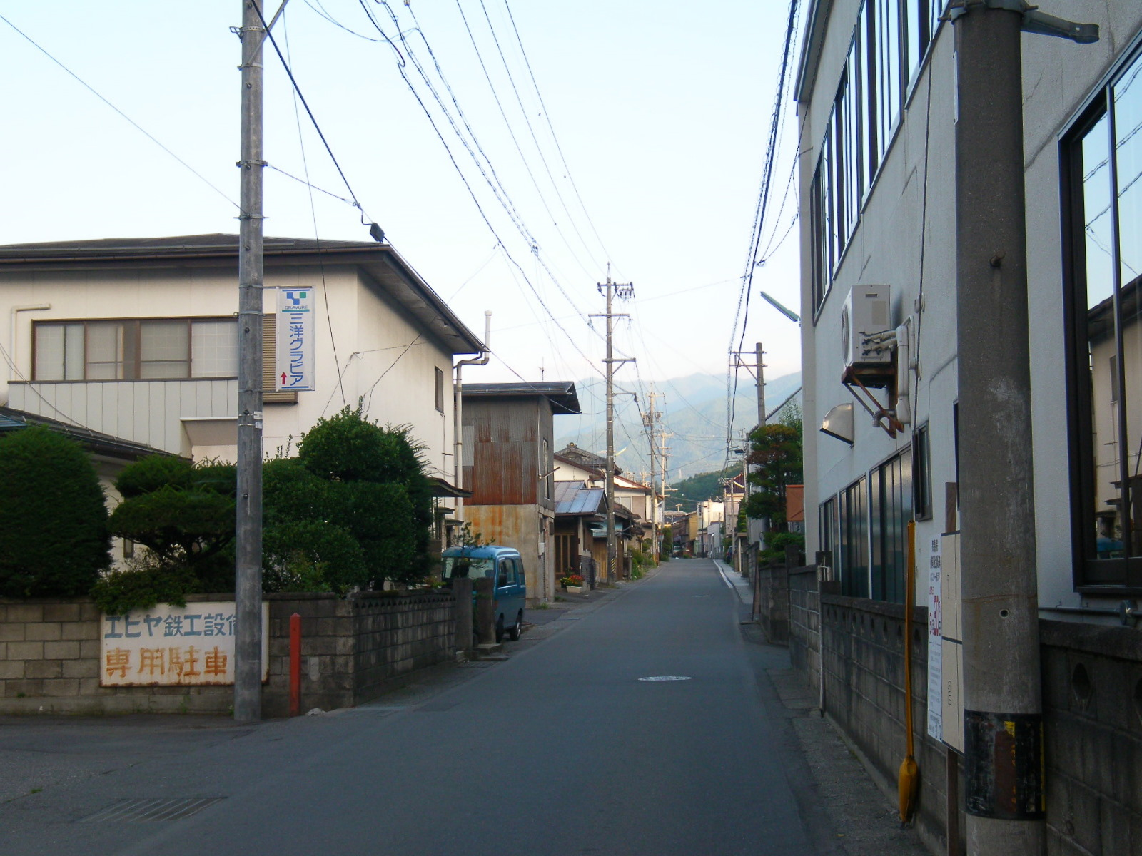 Nagano Prefectural Road 443, Uchinokawa - Ina Line. Ina, Ina, Nagano prefecture, Japan. Toward northwest From the Muromachi Crossroads.